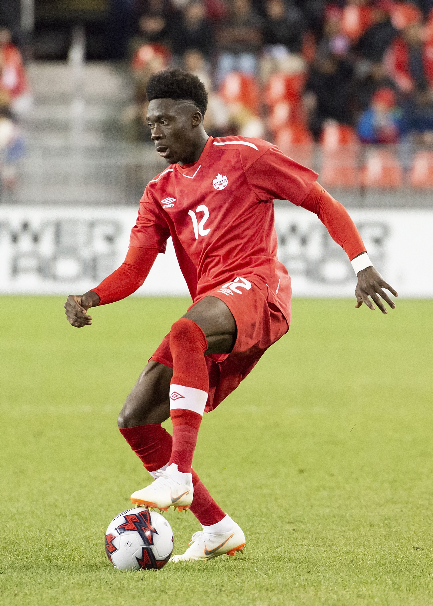 Alphonso Davies playing for Canada in a match against Dominica on 16 October 2018.